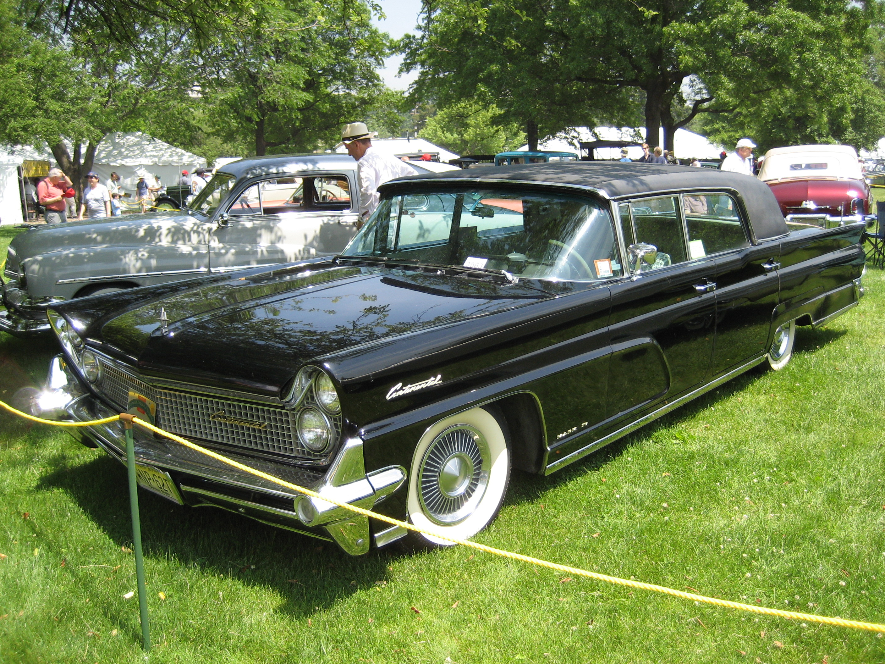 1959 Lincoln Continental formal sedan (Town Car) photographed at the 2008 Greenwich Concours d'Elegance in Greenwich, Connecticut.